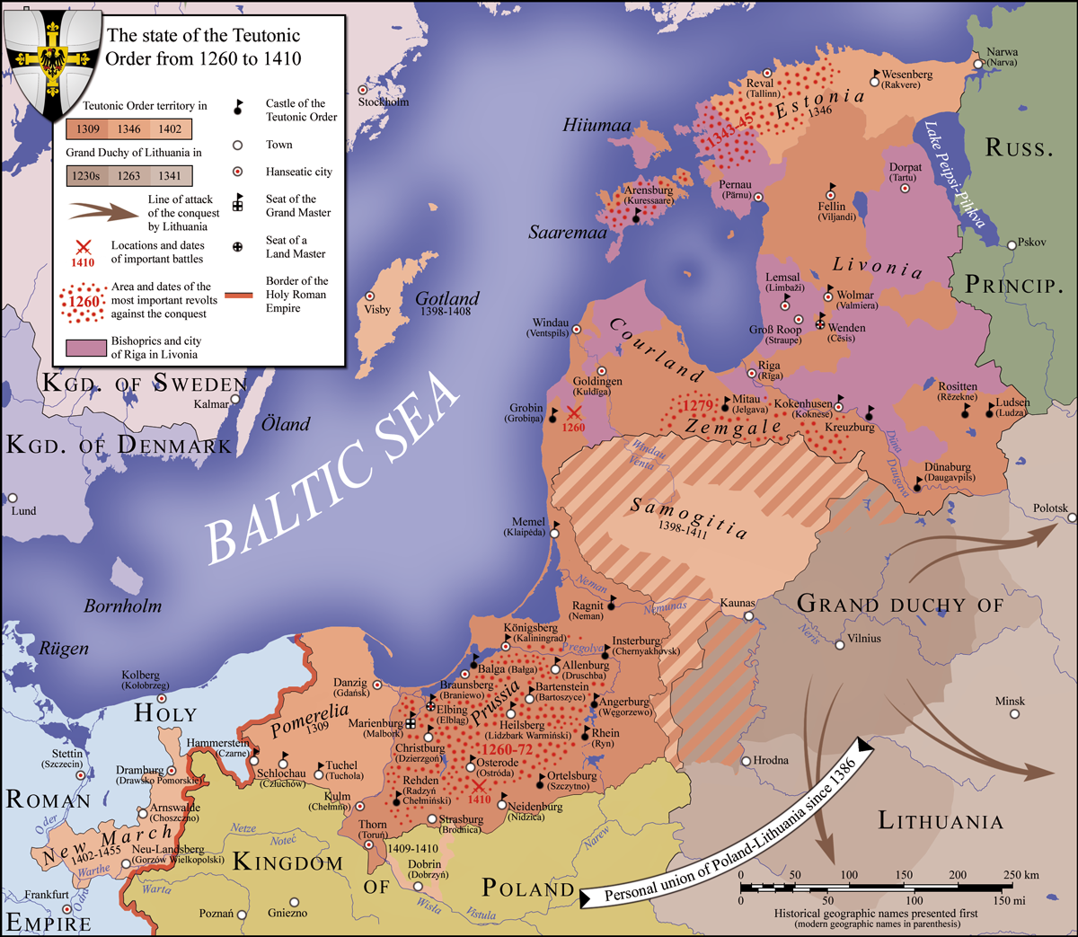 Map of the monastic state of the Teutonic Knights between 1260 and 1410